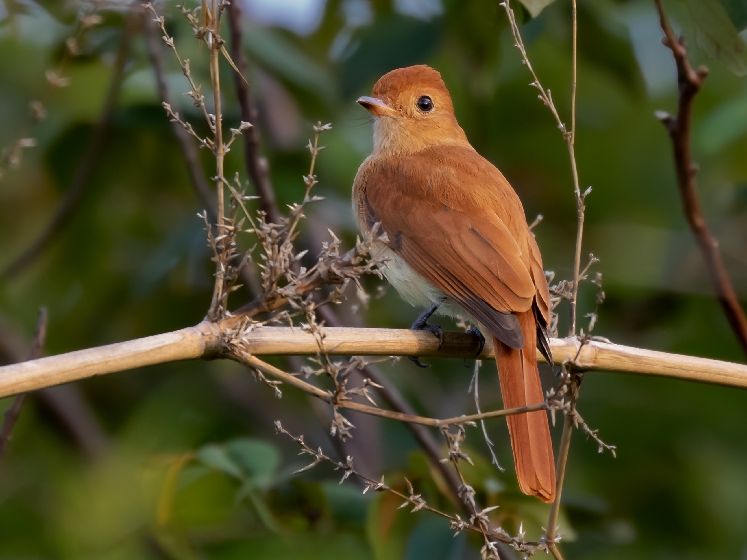 Rufous casiornis; Miranda, Mato Grosso do Sul, Brazil